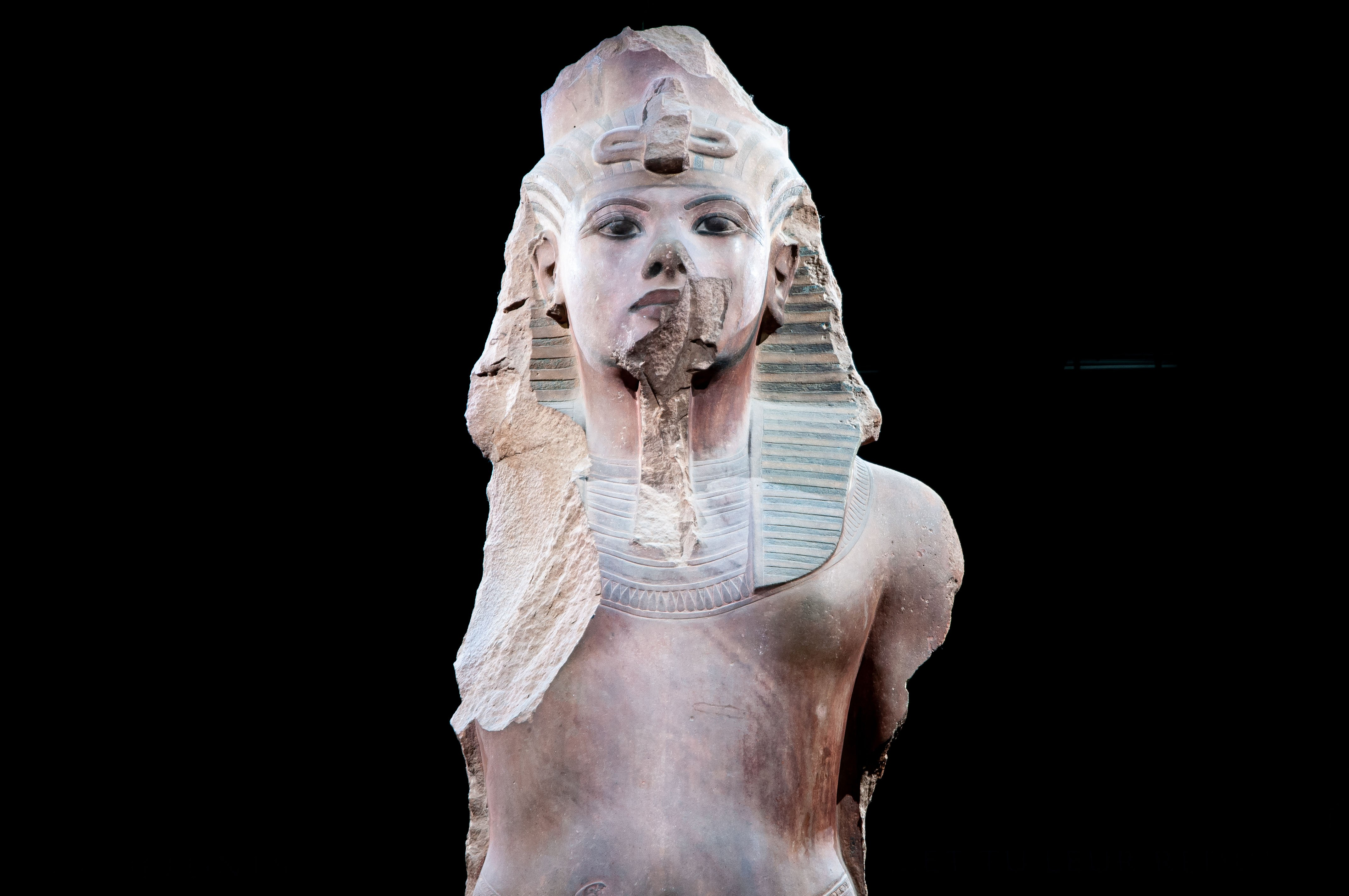 The large traces of paint that remain on the statue give a good overview of its bright colors of origins.